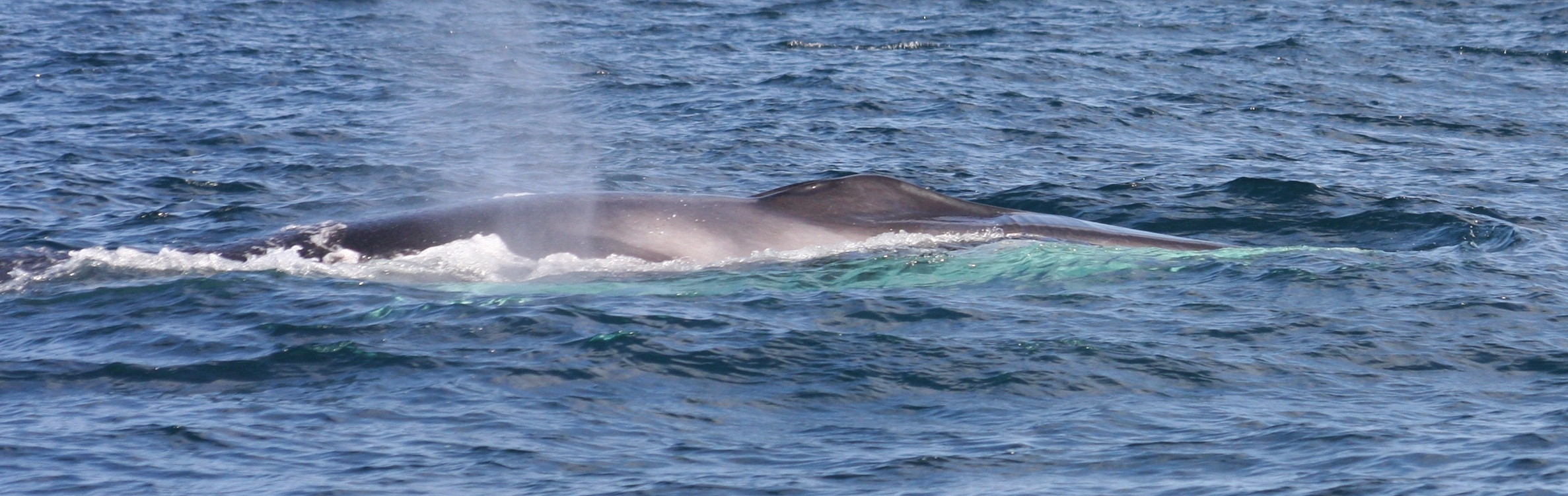 Fin whale in the Porcupine Seabight September 2015